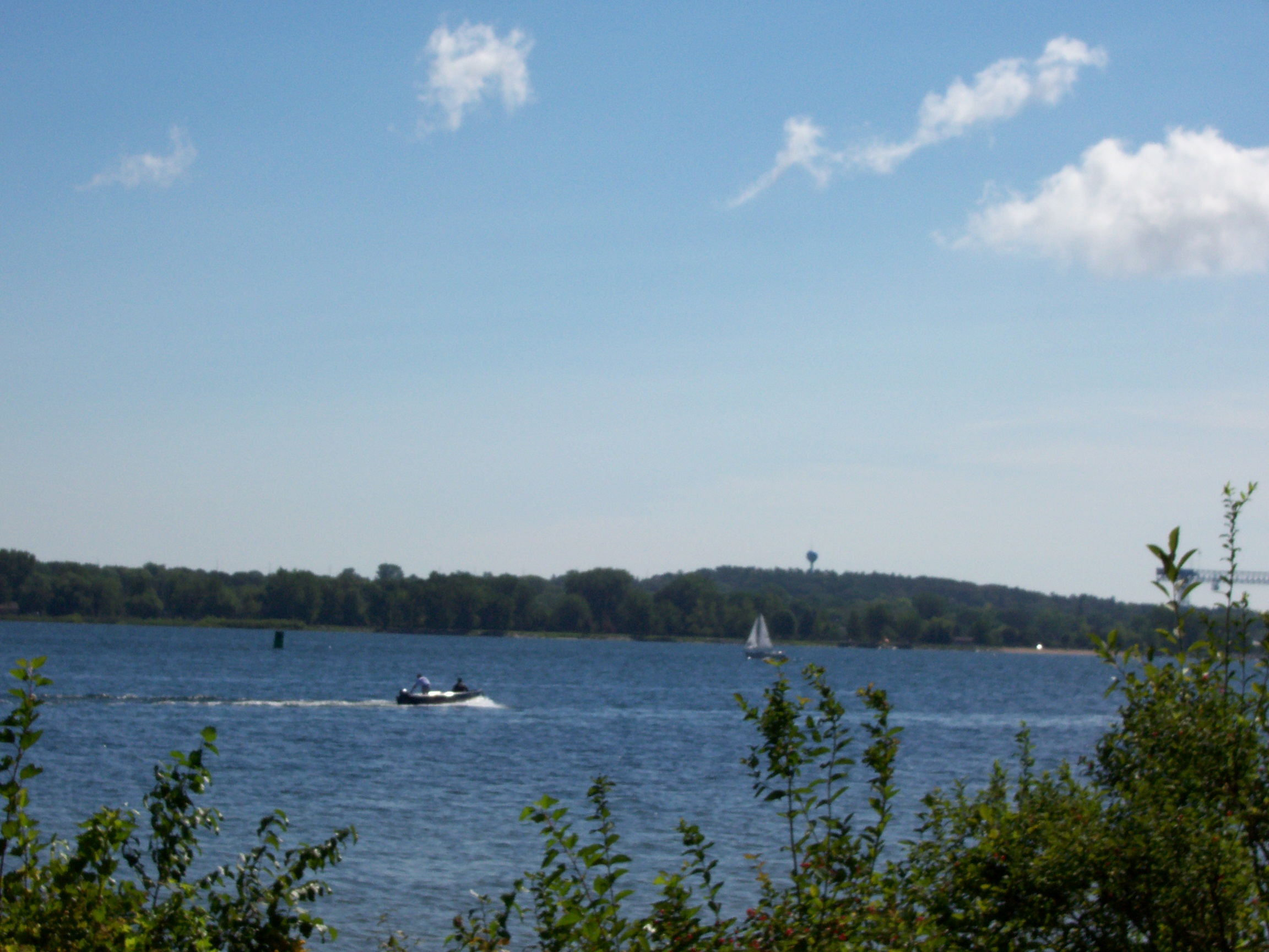 Looking across the Bay of Sturgeon Bay in the Bay of Green Bay of Lake Michigan at Potawatomi State Park near Sturgeon Bay, Wisconsin. This image was taken August 27, 2006 by User:Royalbroil. Licensed Creative Commons Attribution ShareAlike 2.5.